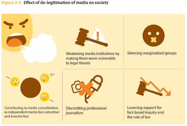 Effect of deligitimisation of media on society